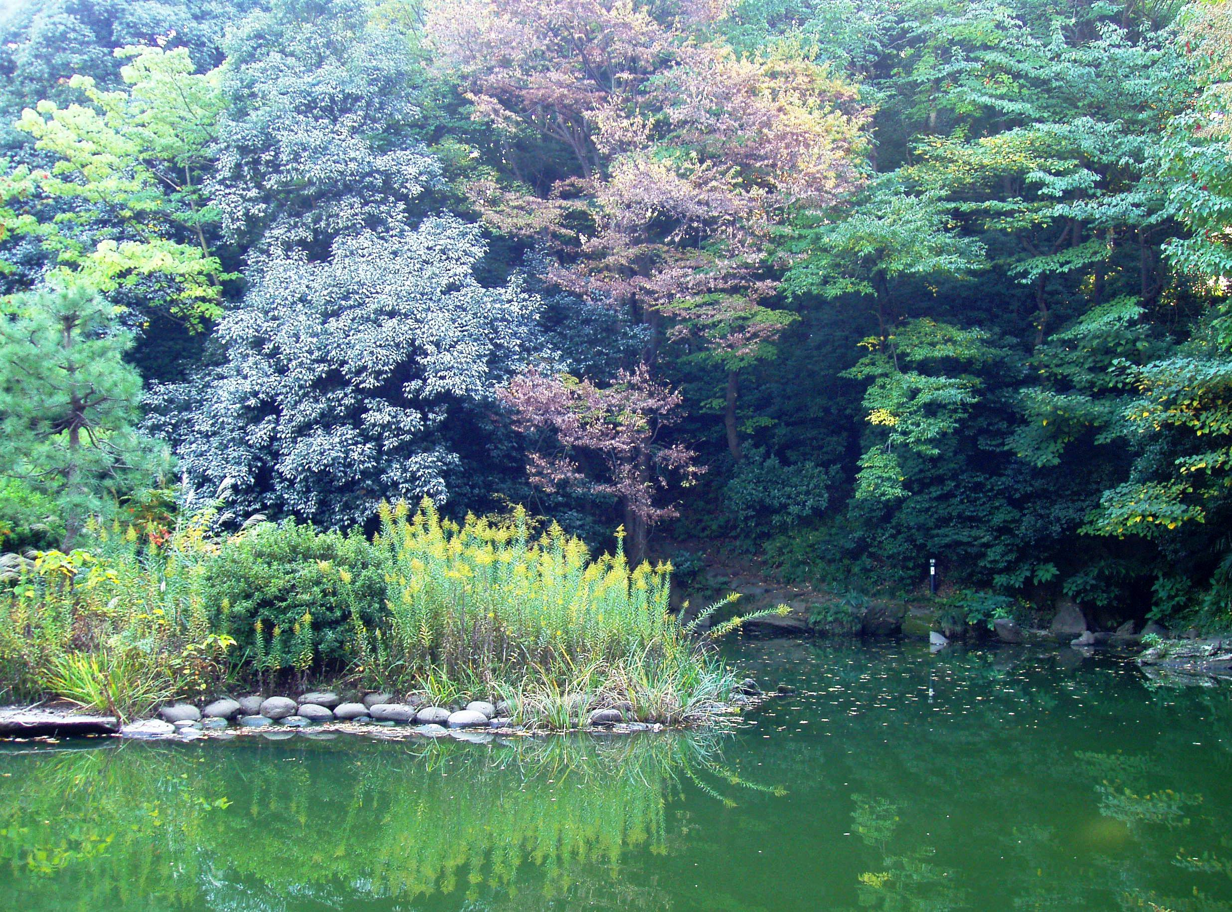 Detail of Sanshiro Pond, Tokyo University's Hongo campus, Tokyo, Japan